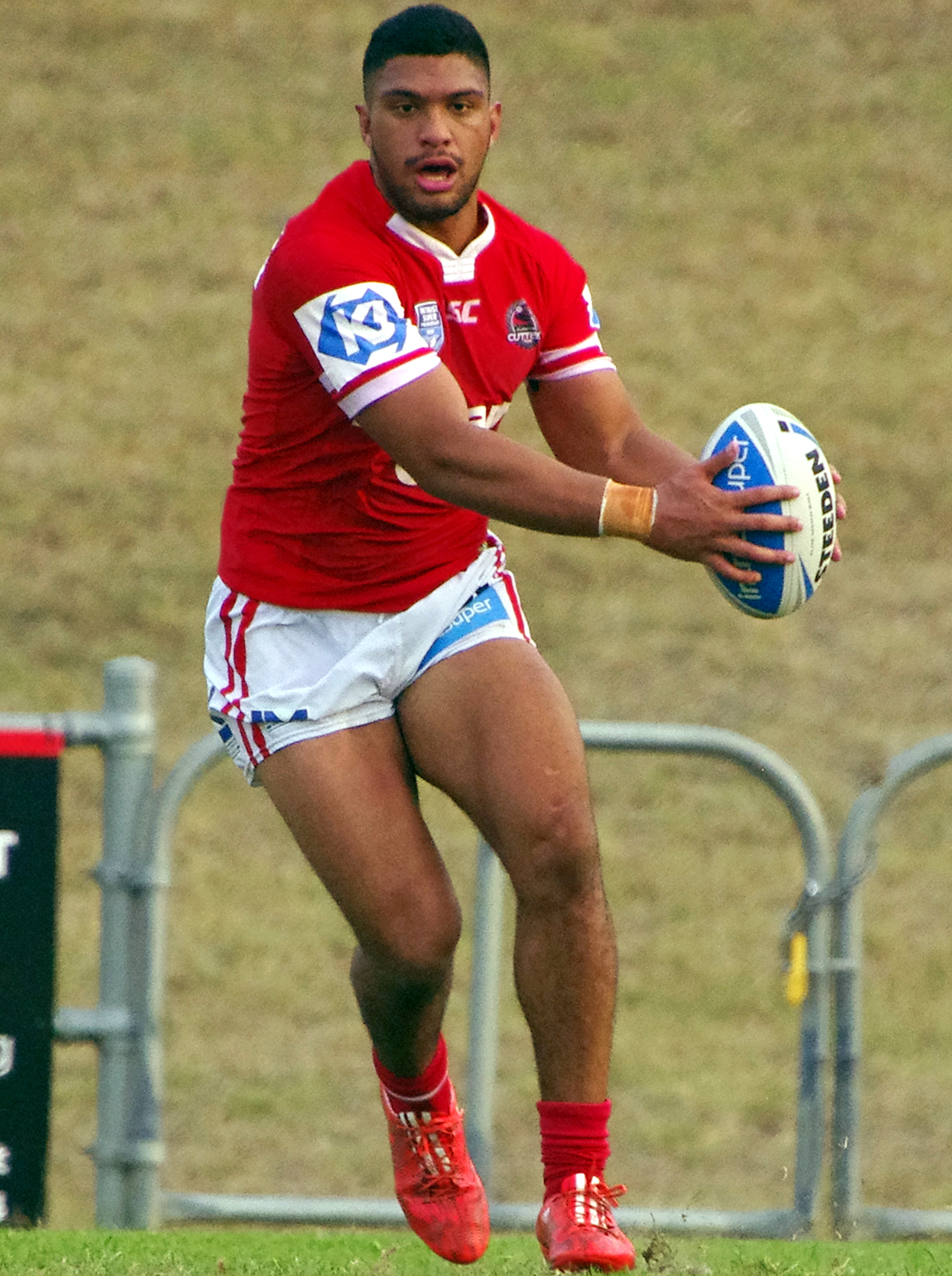 Taane Milne